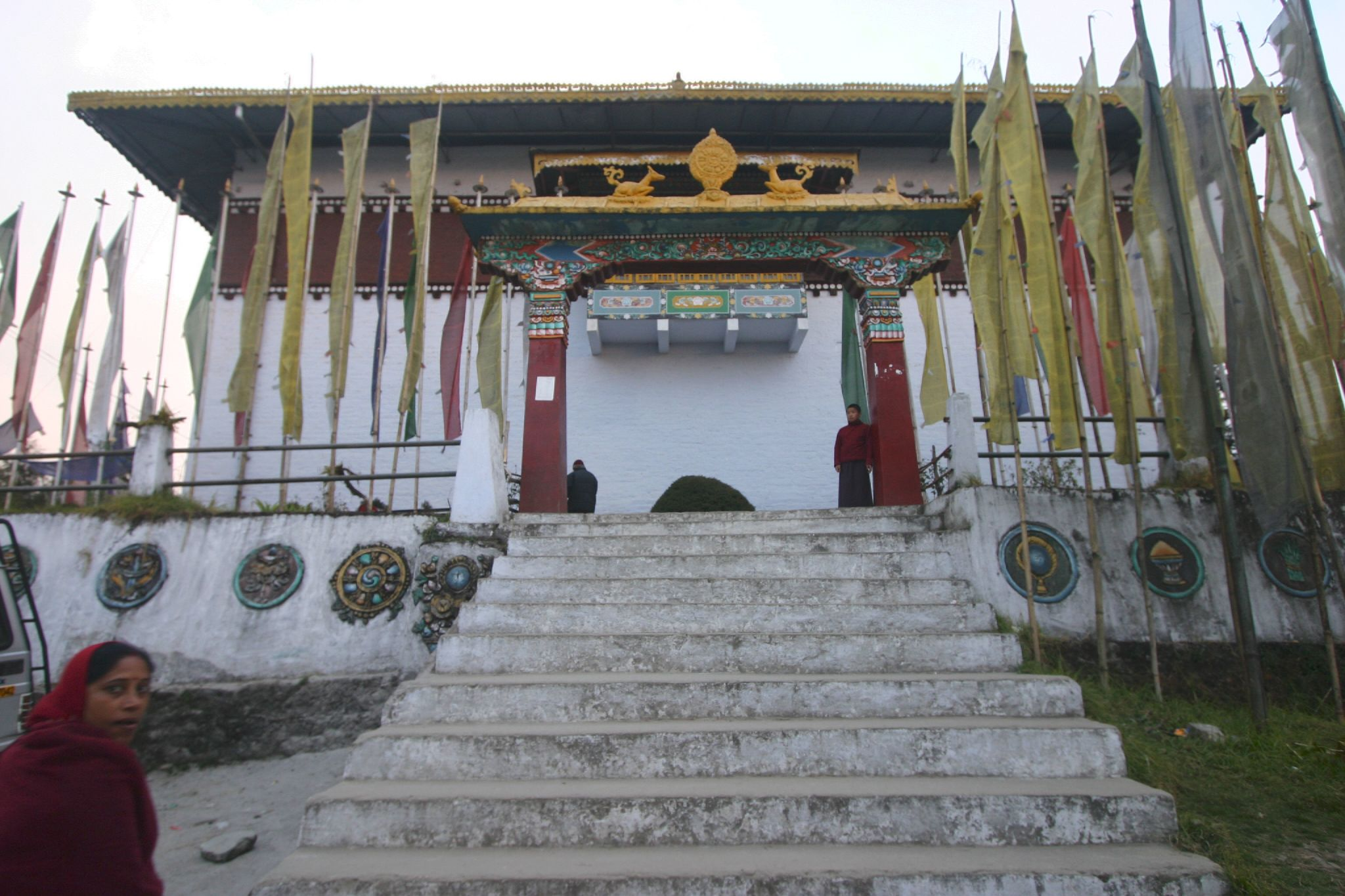 Pemayangtse monastery. Believed to have been conceptualized and designed by the pioneer of Buddhism in Sikkim, Lhatsun Chhembo, Pemayangste soon became the nuclei of monasteries in Sikkim. Today, it is referred to as the "premier monastery" of the State. The Pemayangtse Monastery draws religious sustenance from the Mindoling Monastery in Central Tibet. The monastery contains numerous antique idols and objects of worship and is filled with wall paintings and sculptures.